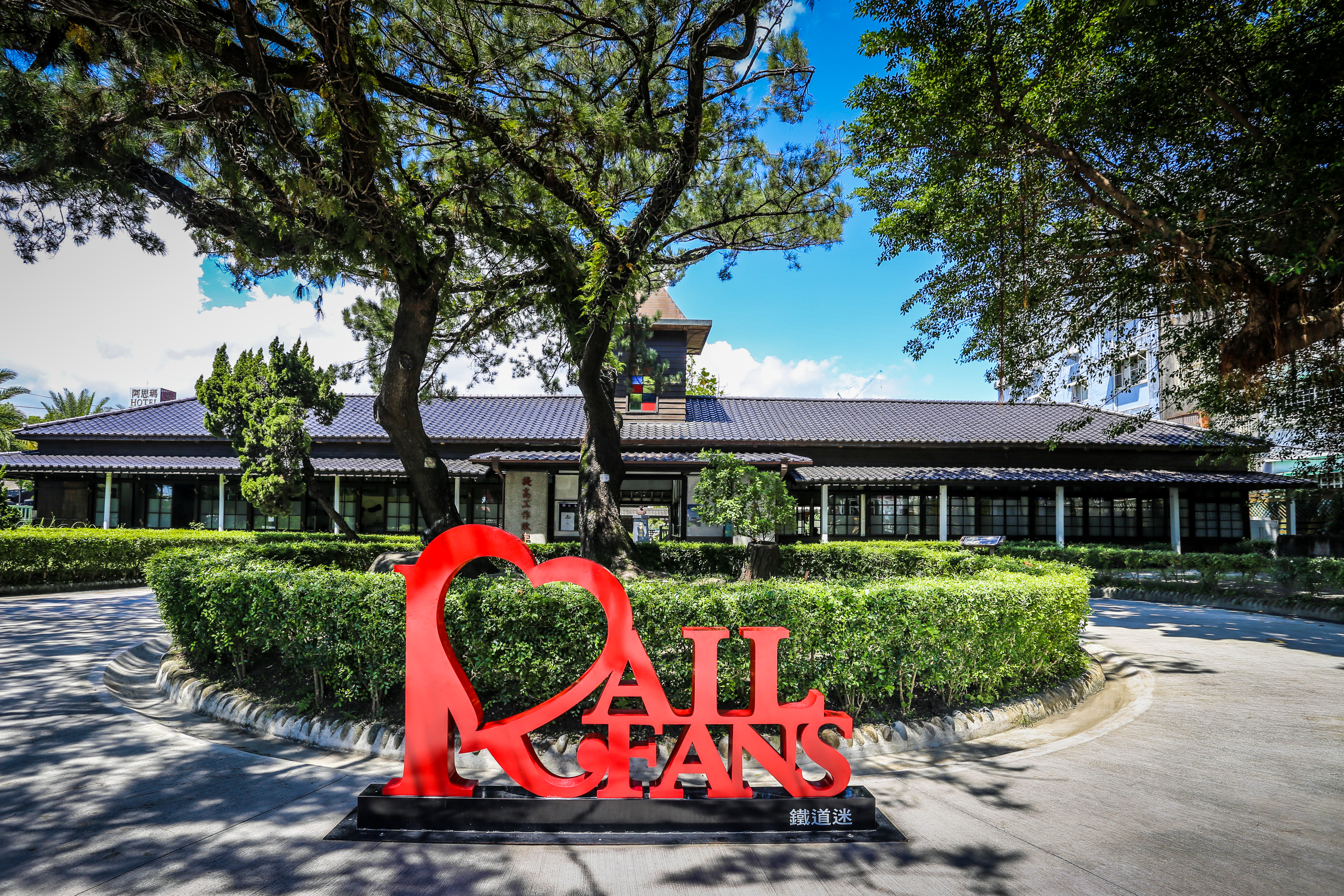 Hualien Railway Culture Park, Hualien City, Hualien County,Taiwan.